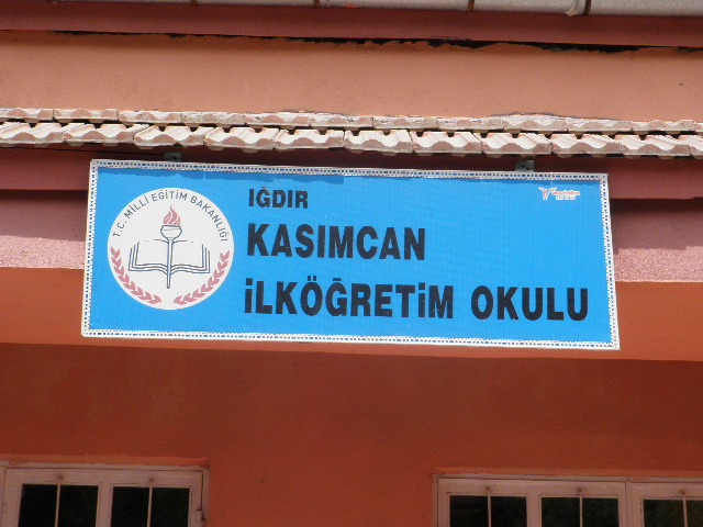 Kasımcan Village Scholl, Iğdır